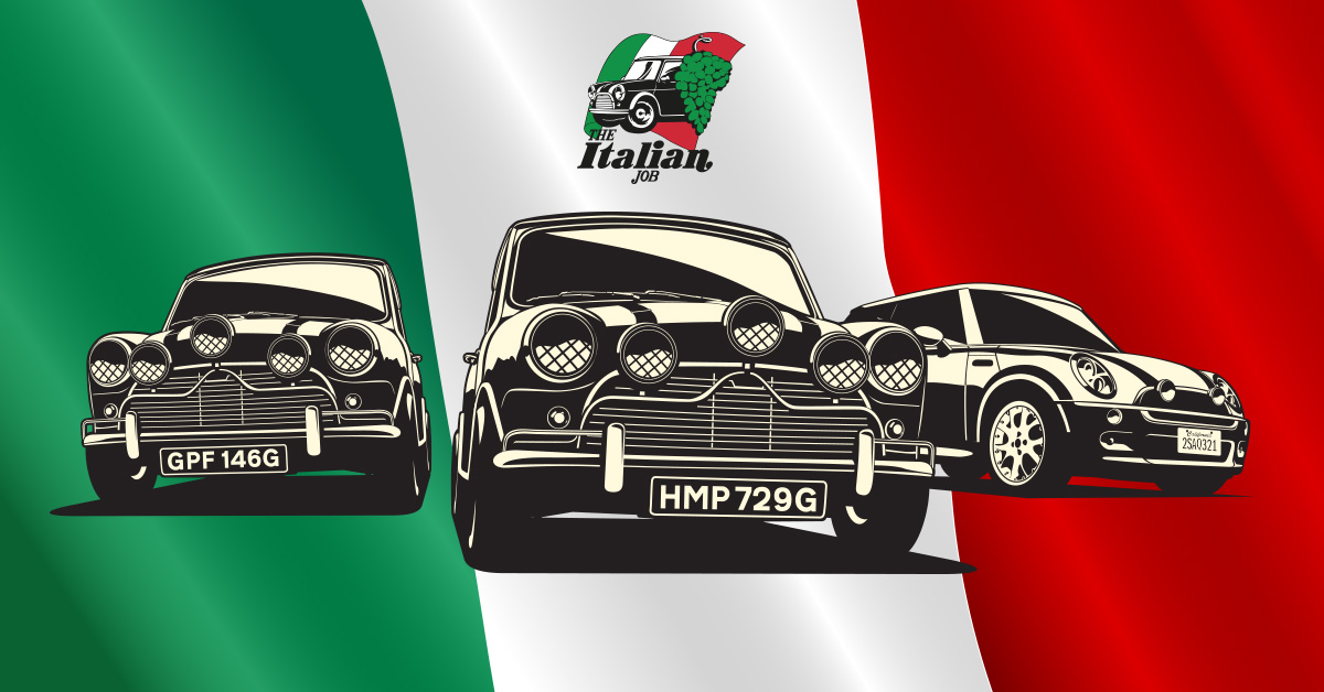 Illustration that all Minis, other vehicles featured in the original film, and their modern derivatives are welcome to participate in The Italian Job.